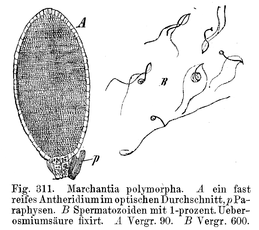 Marchantia polymorpha, single antheridium